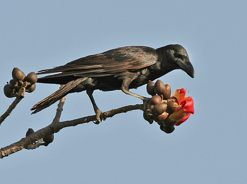 Large-billed Crow (Corvus macrorhynchos) at Keoladeo National Park, Bharatpur, Rajasthan, India.